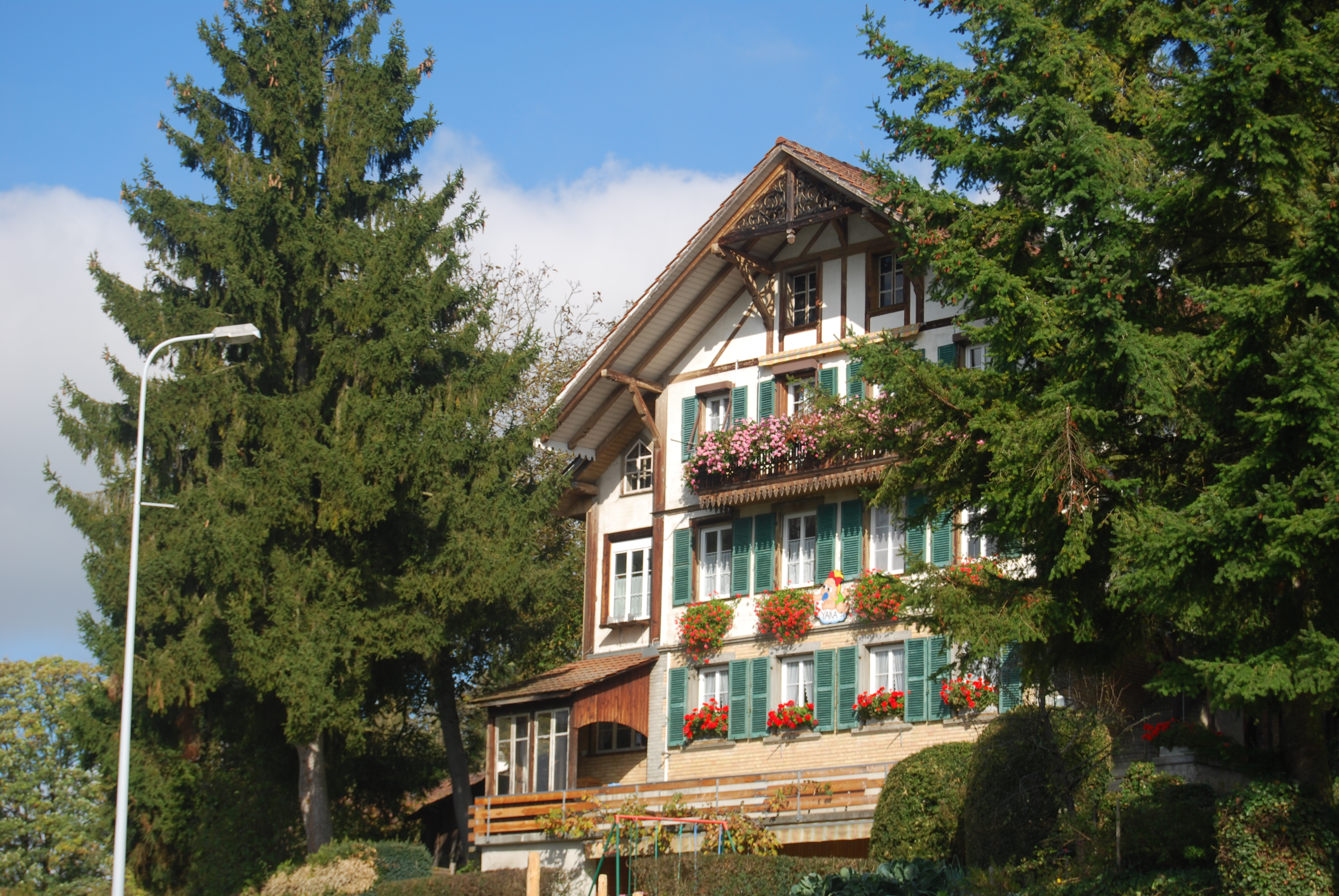 Timber framing house at Grosshöchstetten, canton of Berne, SwitzerlandEsperanto: Faktrabdomo en Grosshöchstetten, Kantono Berno, Svislando